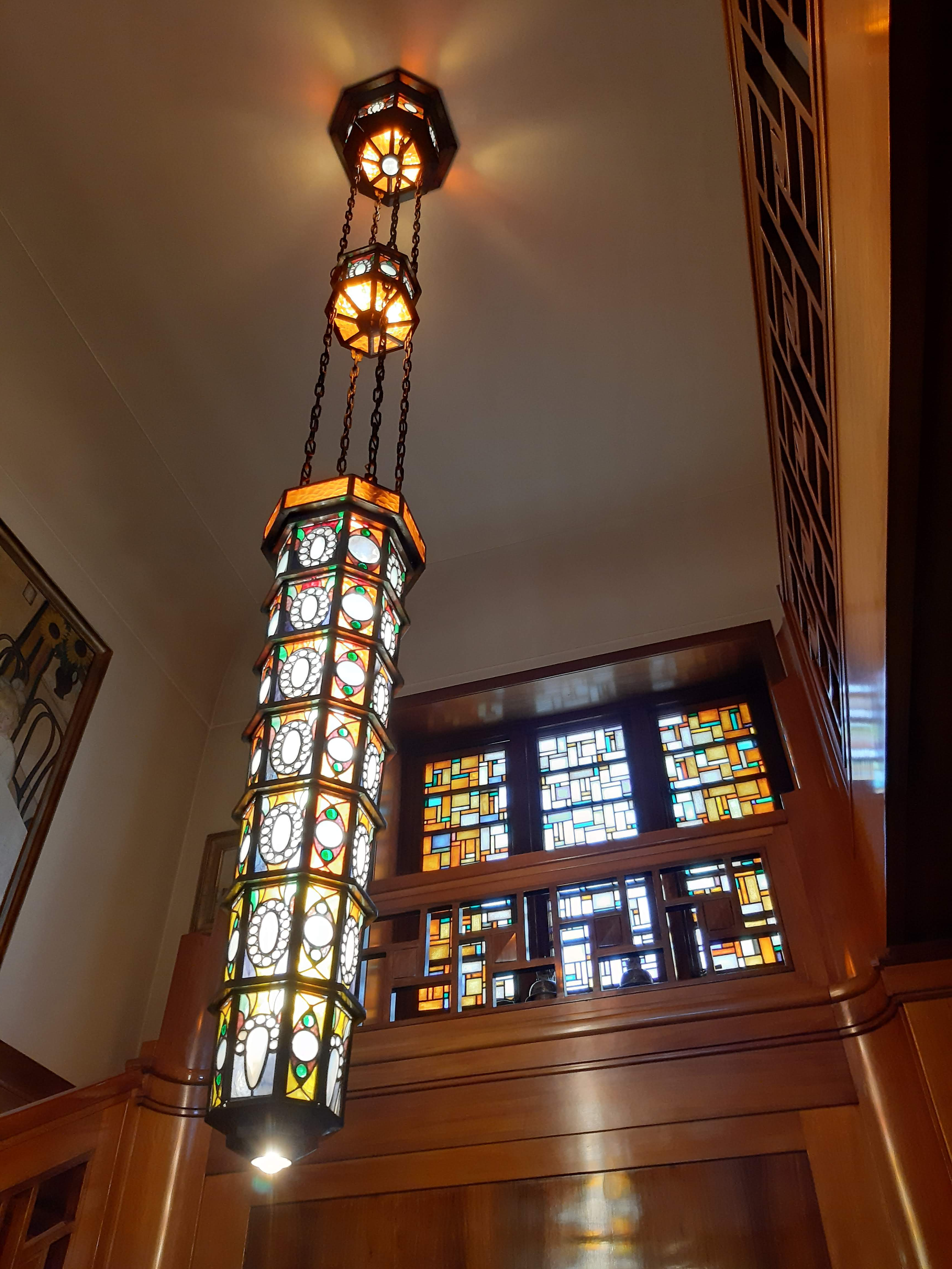 Museum Van Buuren